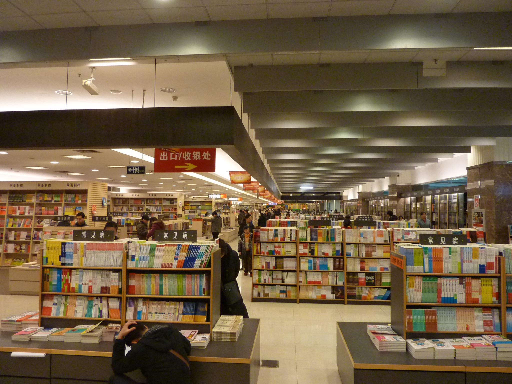 Wuhan's largest bookstore, I presume. The books on the shelf in the foreground are on "common diseases"; background left, on web development.